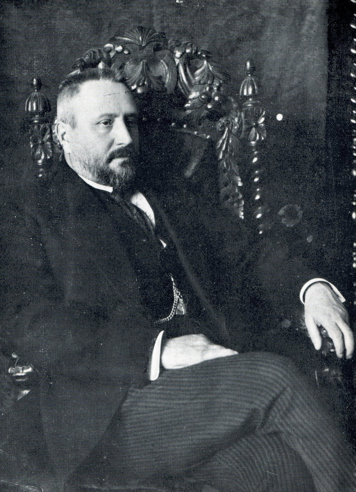 Aleksander Lednicki - Polish lawyer and politician